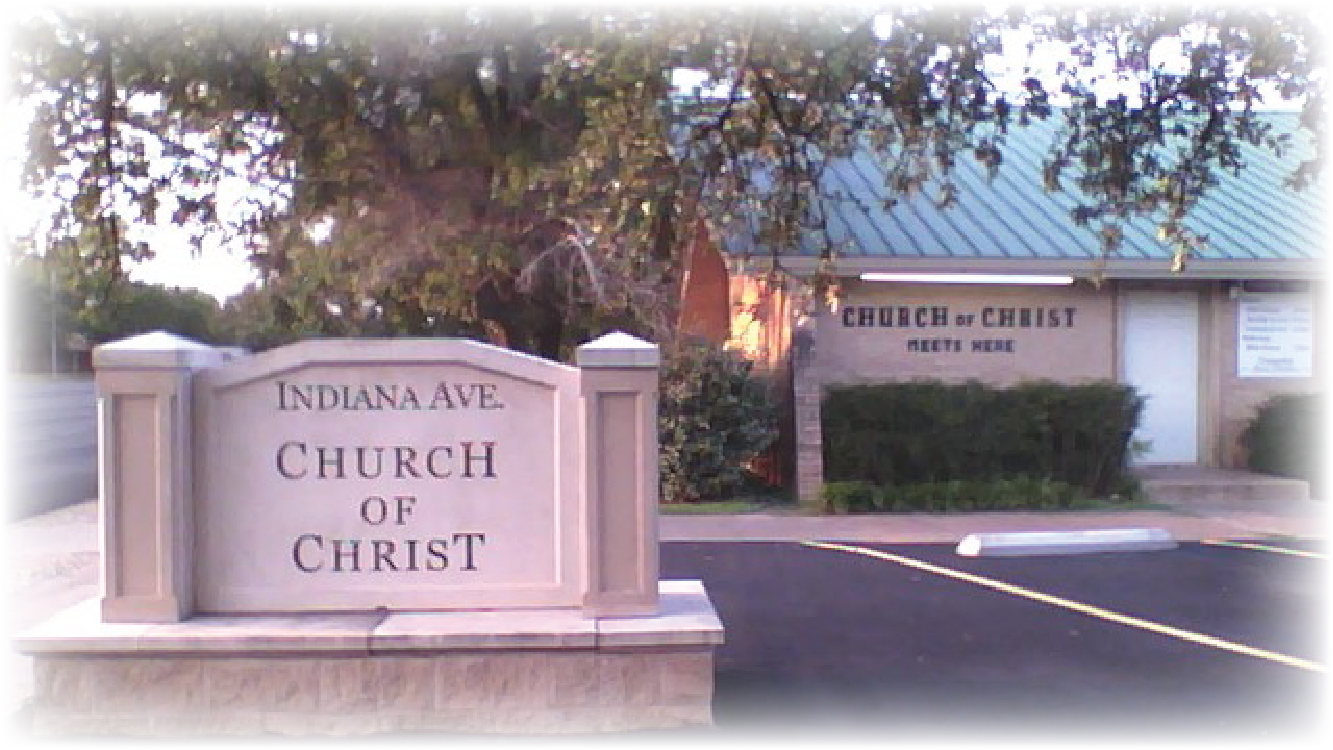 The building of a church of Christ located at 6111 Indiana Ave., Lubbock, Texas. The church's website is